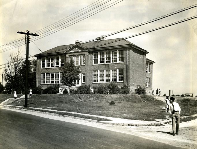 Schoolhouse Location: Lawnside County: Camden Format: 8x10 BW Photographer: Unknown Notes: On back: "Negro pupils learn service and self dependence from negro teachers, also harmony in glee club"